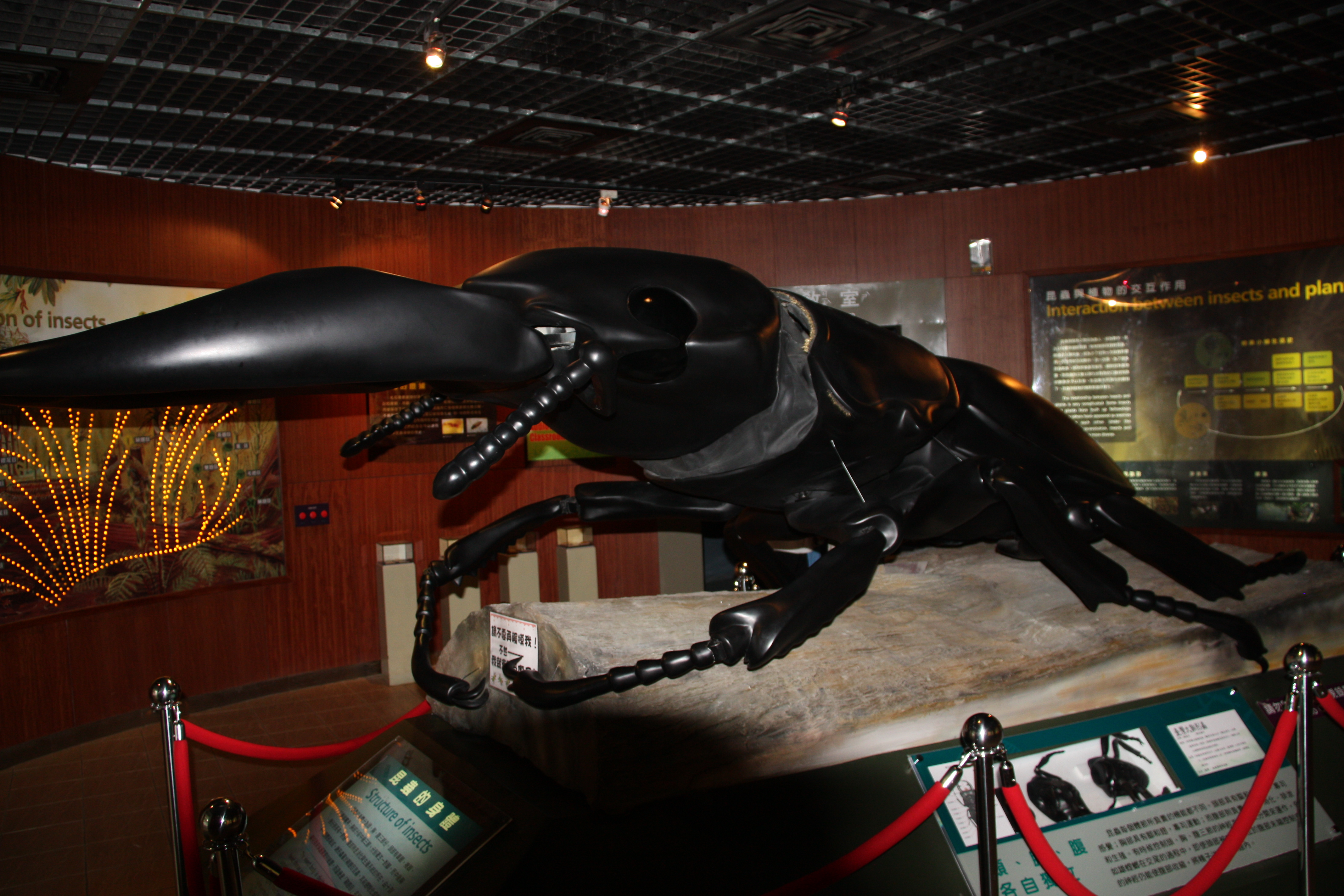 Táiběi Wénshān District Táiběi Zoo Insectarium Model of a bug